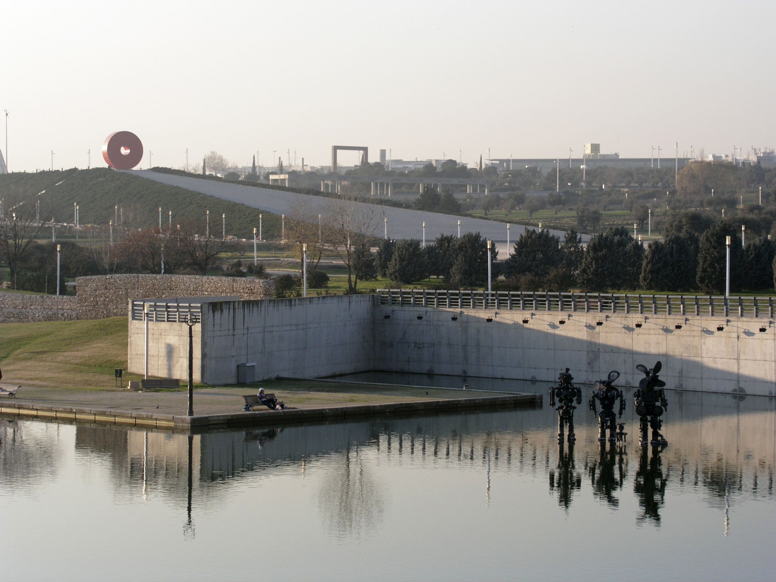 Parque Juan Carlos I, view, Madrid, Spain. In right corner: Eolos, sculpture by Paul Van Hoeydonck. (Eolos= God of wind /Dios del viento)